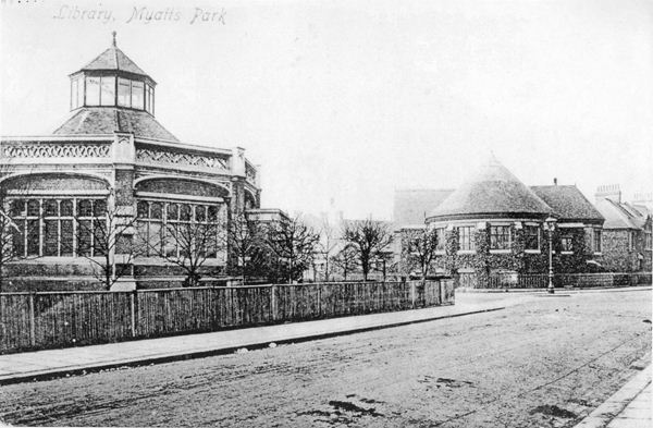 Minet Library with Longfield Hall in background, C. 1890